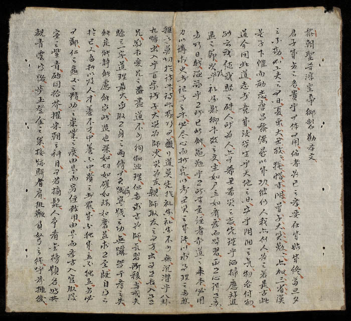 First page of Confucian essay wrote by emperor Lê Thánh Tông (1442-1497) in chữ nho.